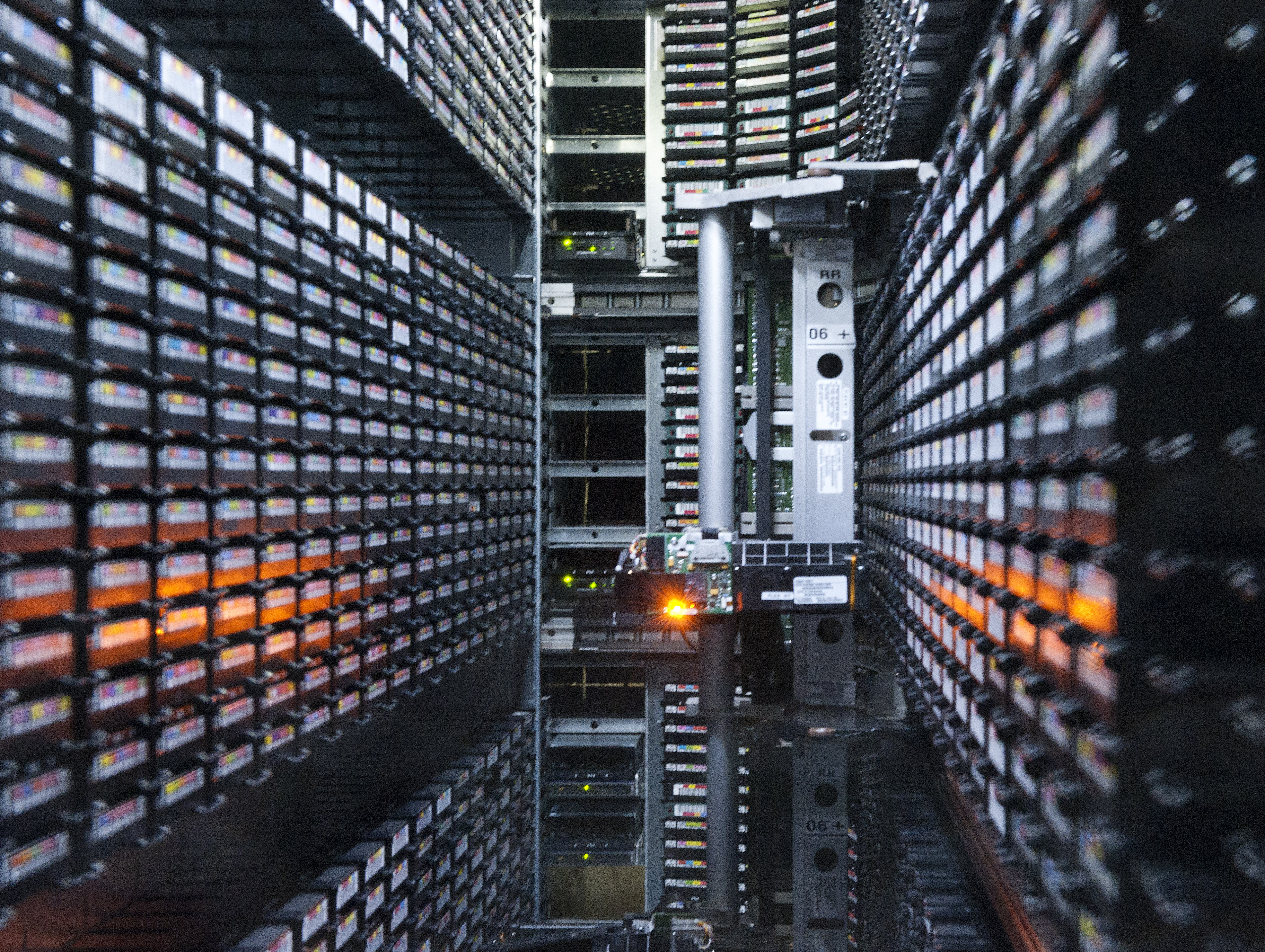 Tape drive robot, file storage system (silo)